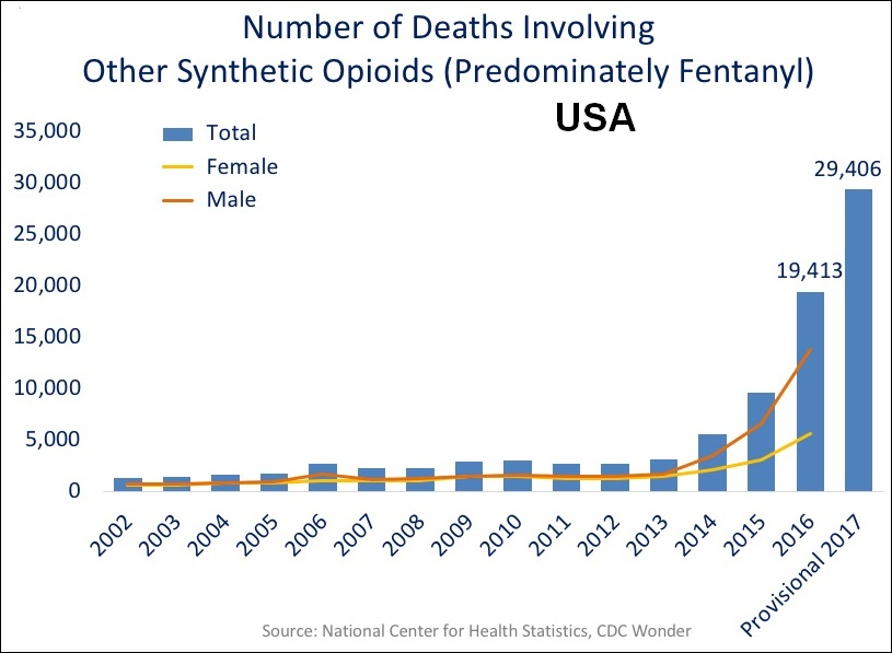 "National Overdose Deaths—Number of Deaths Involving Other Synthetic Opioids (Predominately Fentanyl). The figure above is a bar chart showing the total number of U.S. overdose deaths involving other synthetic opioids from 2002 to 2016 and provisional 2017 data. Other synthetic opioids is a category dominated by illicit fentanyl. The chart is overlayed by a line graph showing the number of deaths of females and males. From 2002 to 2017 there was a 22-fold increase in the total number of deaths."